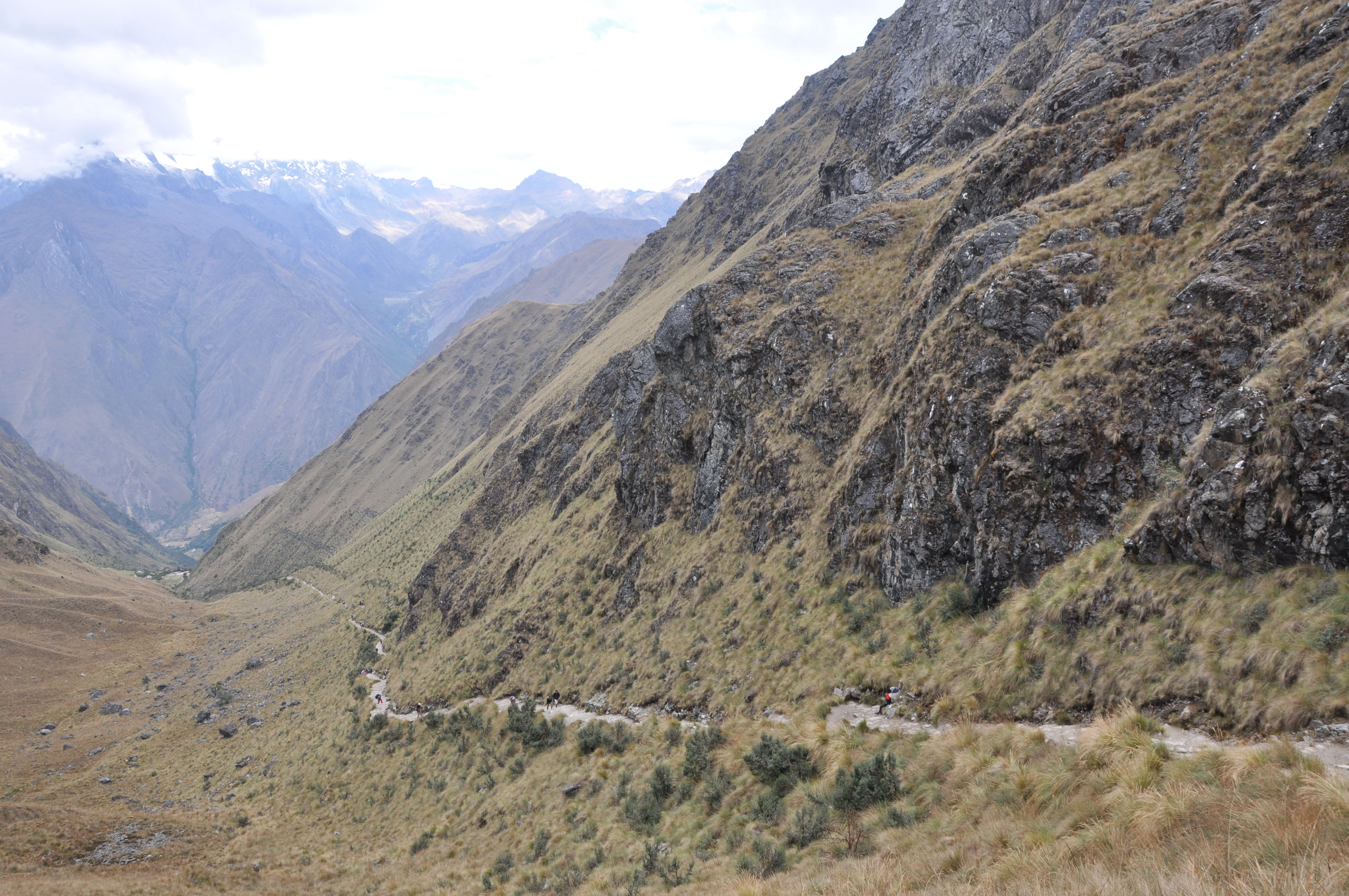 At the Warmi Wañusqa mountain pass along the Inca Trail in Peru.